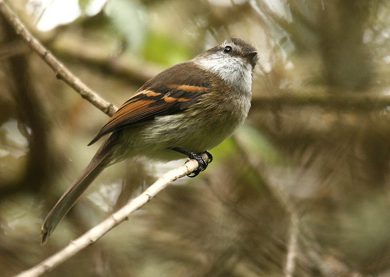 White-throated Tyrannulet (Mecocerculus leucophrys) at Cayambe-Coca Reserve, near Papallacta Pass, Ecuador.